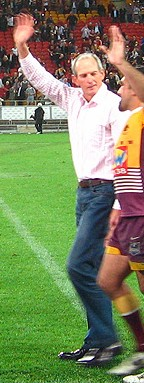 Rugby league coach Wayne Bennett